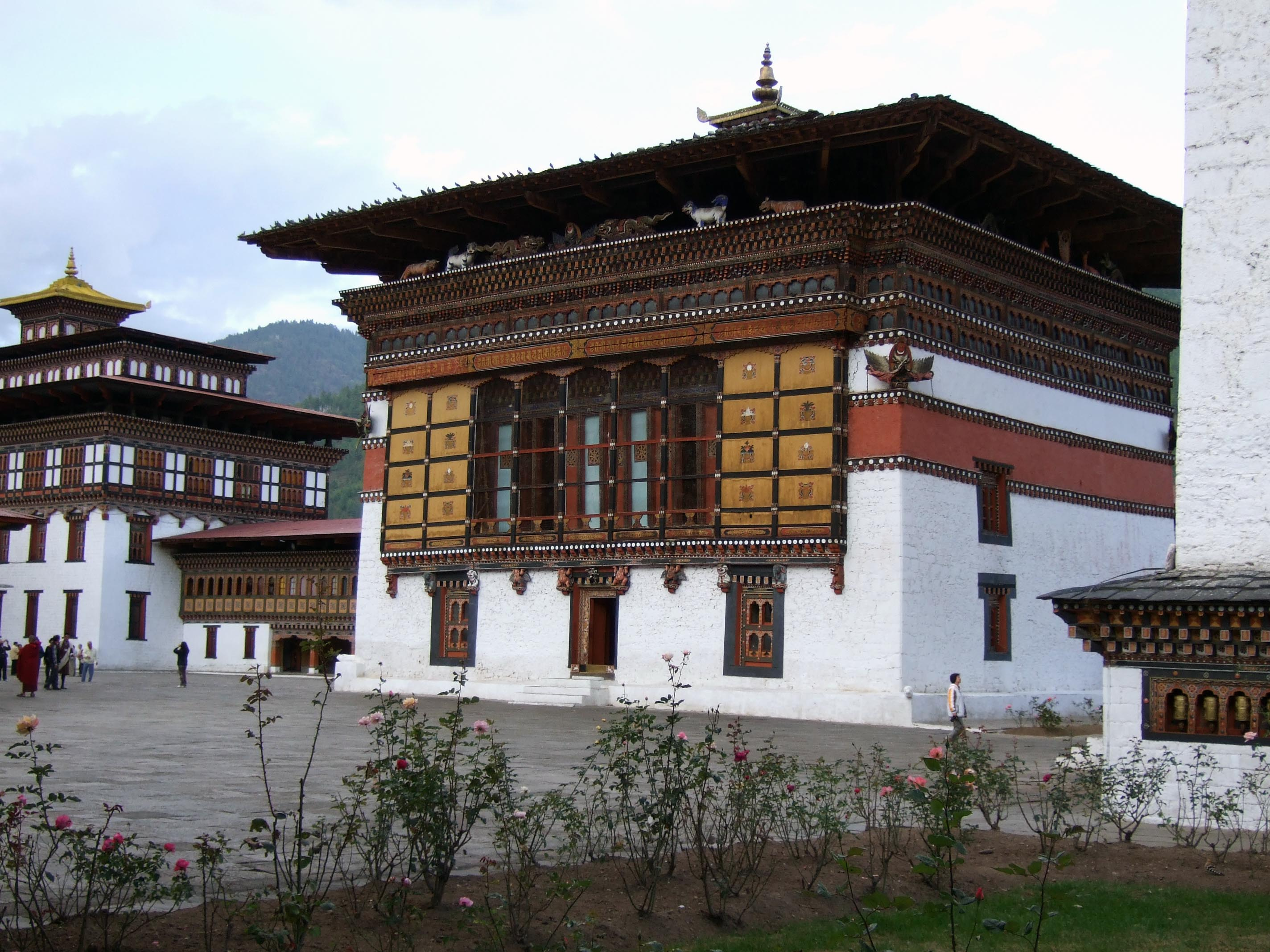 Trashi Chhoe Dzong (Tashichödzong) inside